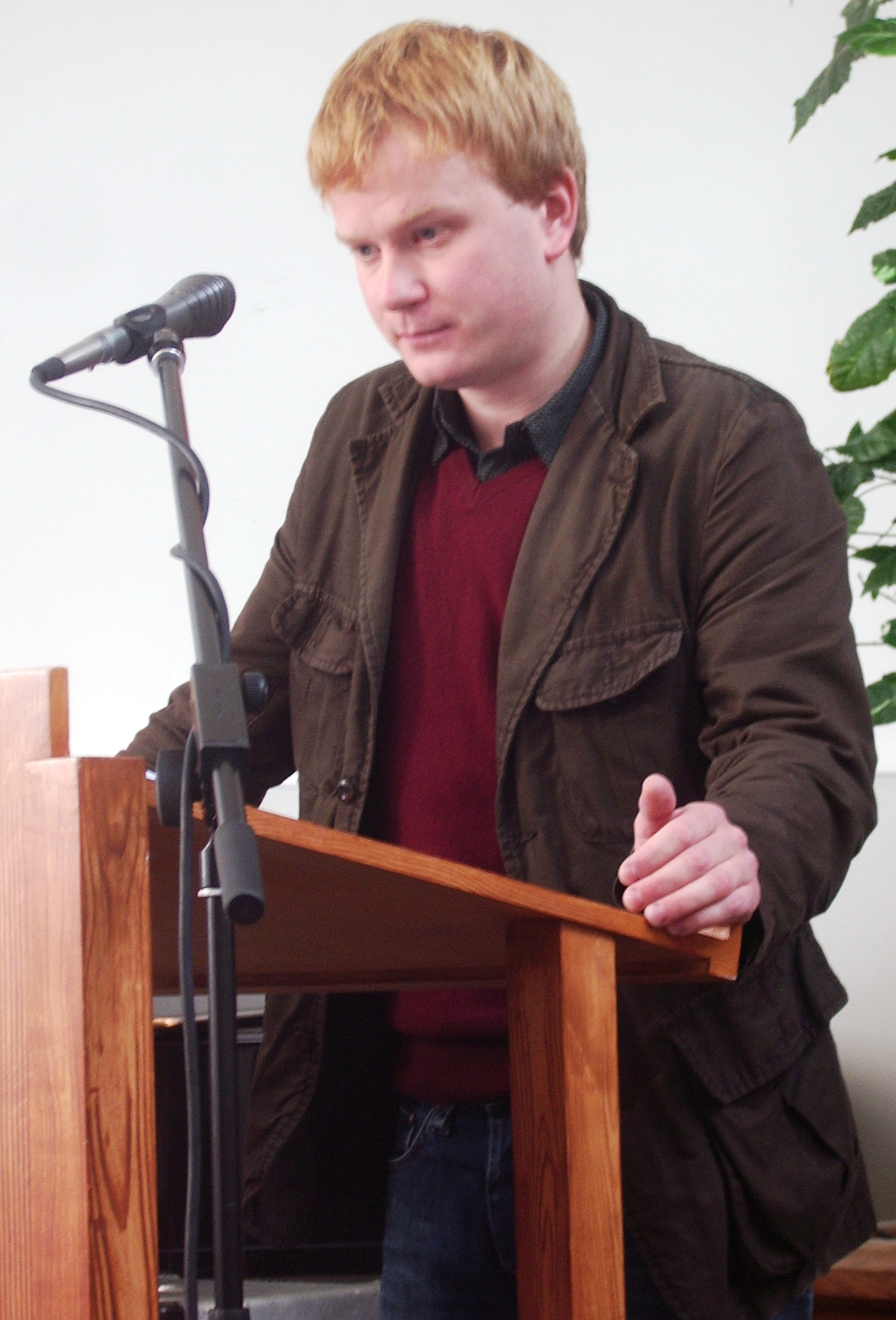 Priit Rohtmets (born 1981) is Estonian theologian.